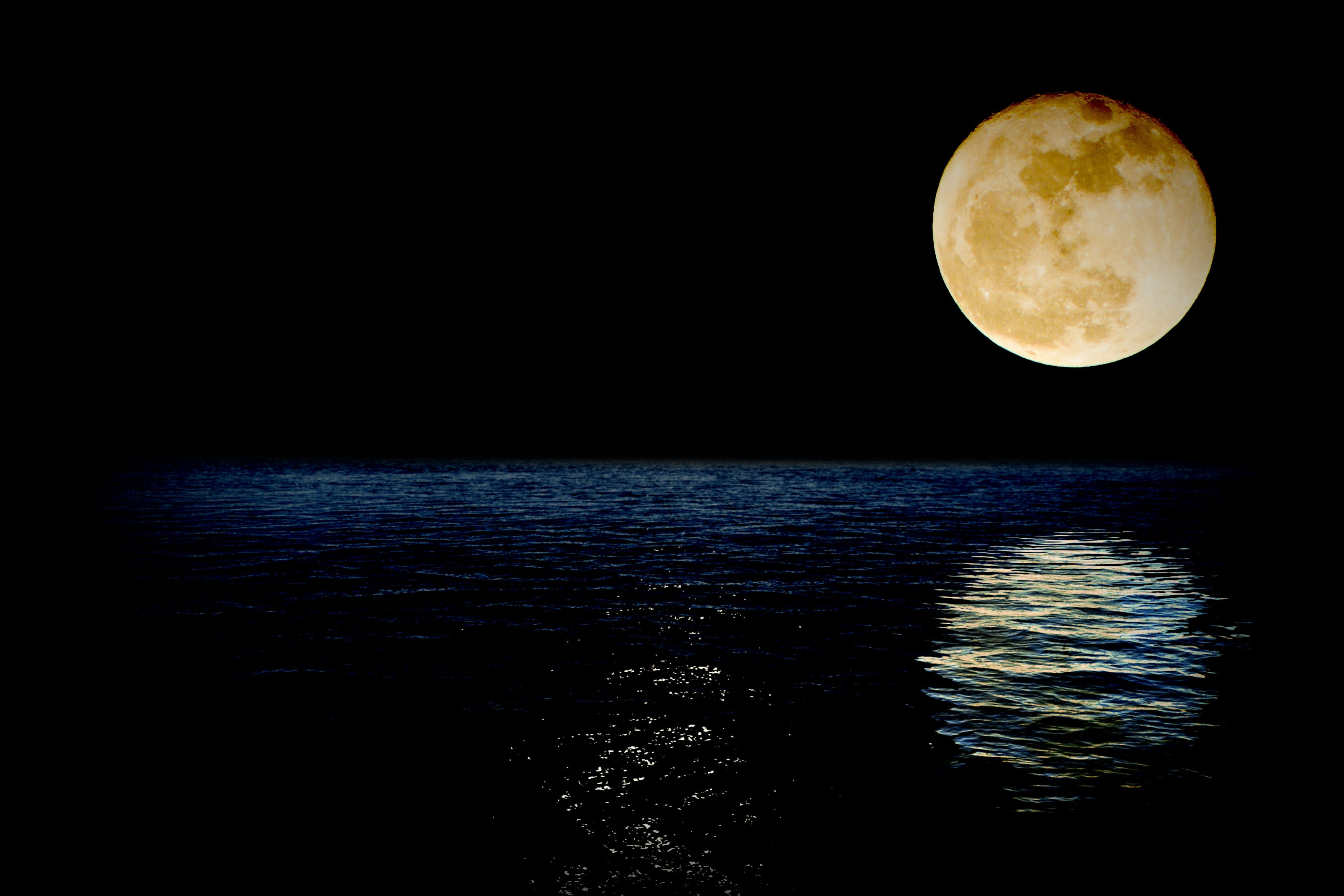 Luna Reflection Sea Superluna Night Super Water